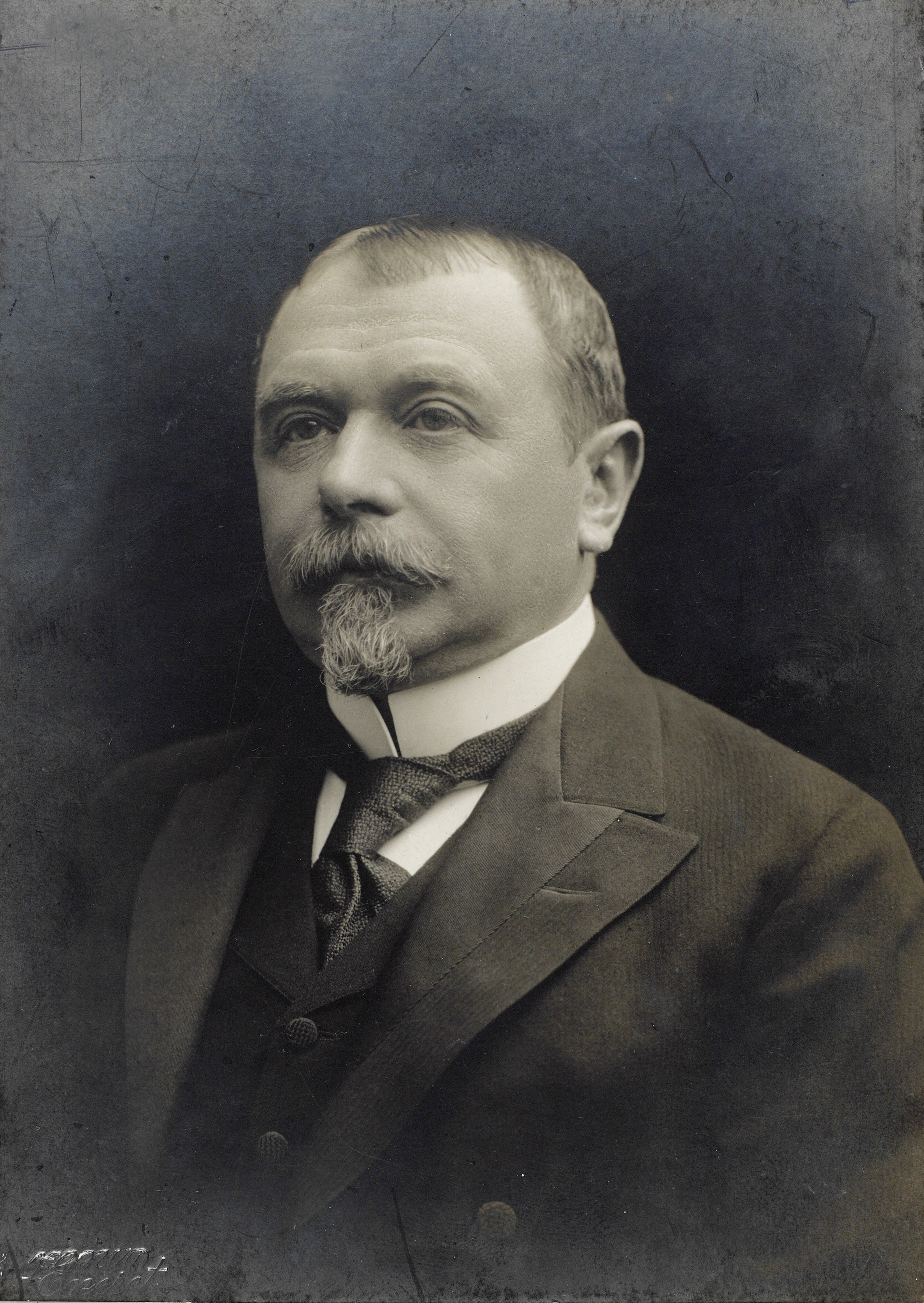 Christopher Friedenreich Hage (1848-1930), Danish merchant and Minister of Trade, MP